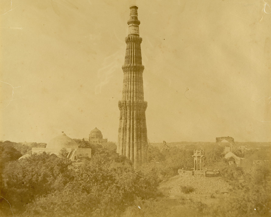 Photograph of the Qutb Minar at Delhi, taken by Robert and Harriet Tytler in 1858. This is a general view from the east looking towards the tower and surrounding tombs, the area much overgrown. The dome of the Alai Darwaza is at the left, and a small pavilion, a late addition that for a time stood at the top of the tower, at the right. Adham Khan's Tomb can be seen in the distance to the left of the Qutb.